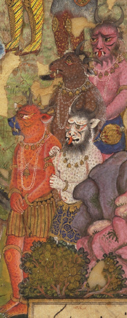 part of an illumination from a Shahnameh manuscript